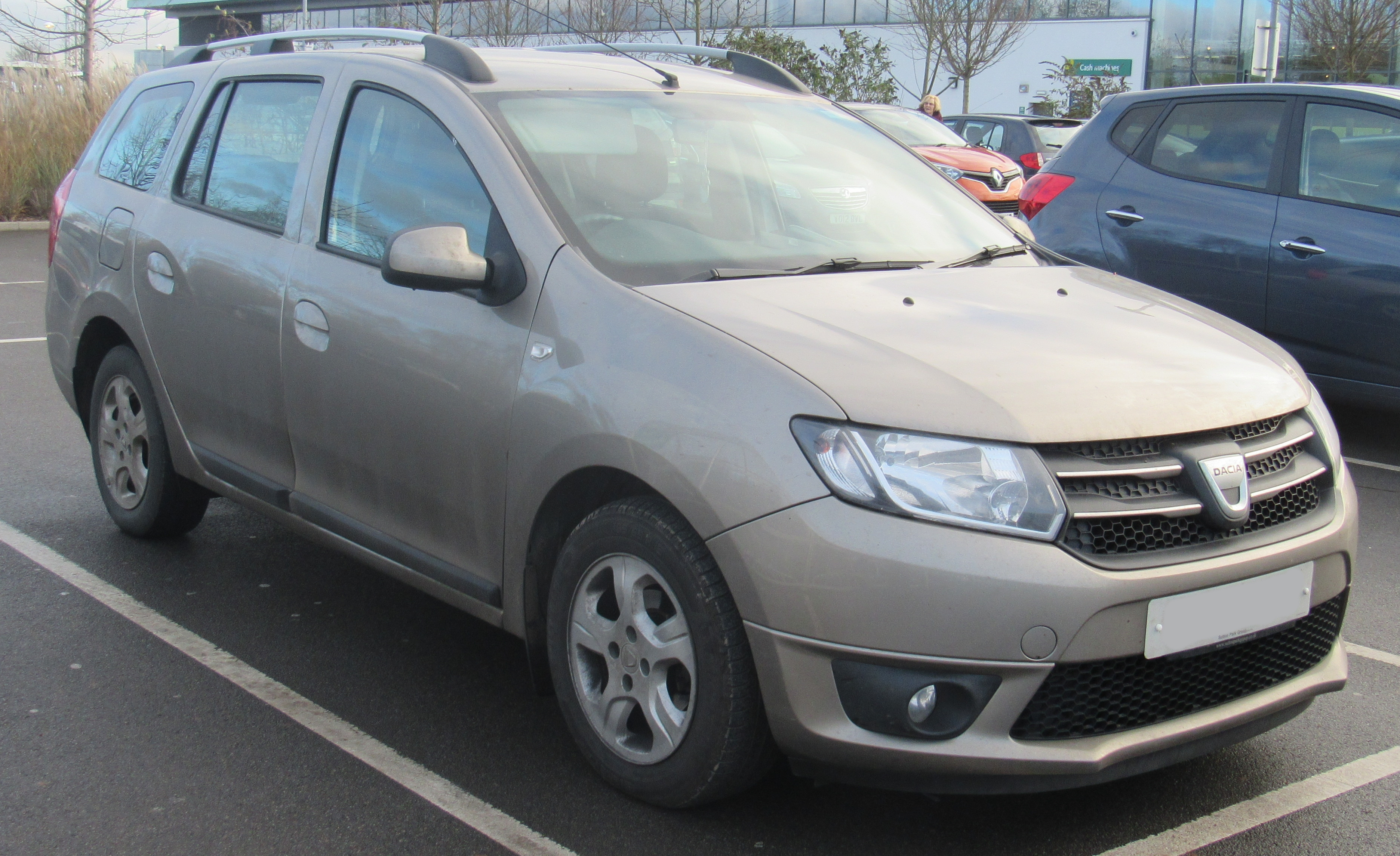 2015 Dacia Logan MCV Laureate DCi 1.5 Taken in Leamington Spa